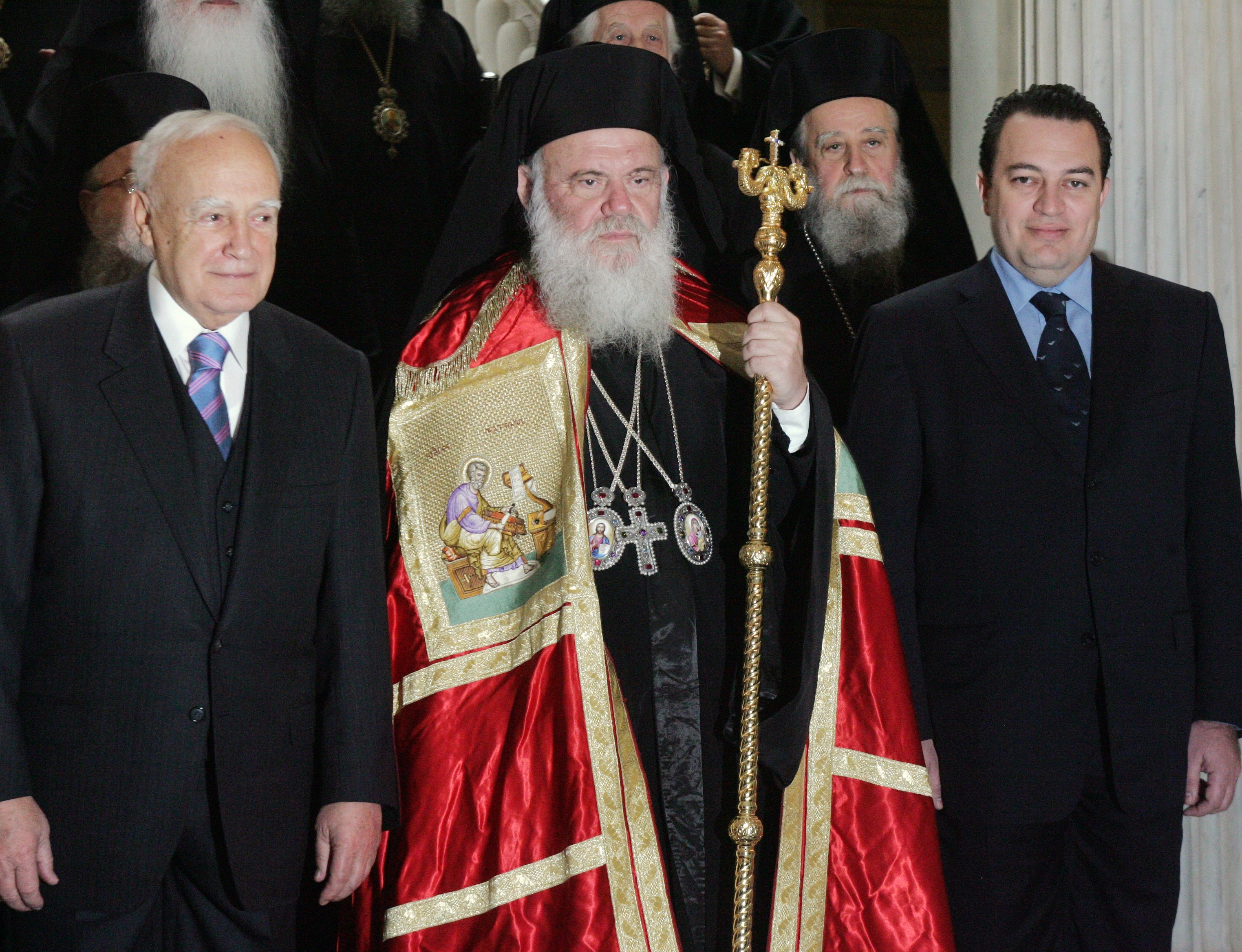 Karolos Papoulias and Evripidis Stylianidis at the declaration ceremony of the Archbishop Ieronymos II of Athens, Presidential Palace 2008.